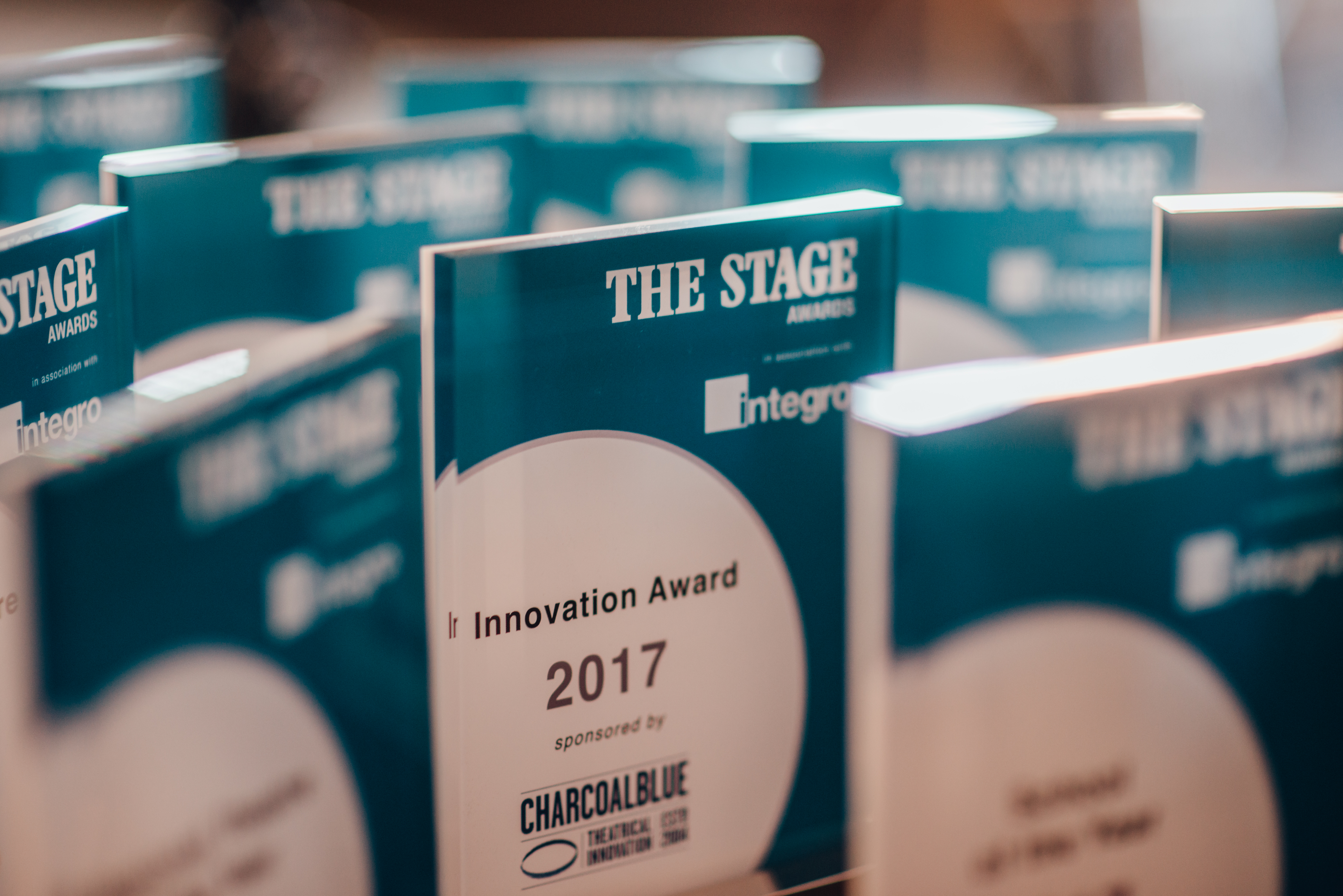 The Stage Awards 2017 trophy. Photo credit: David Monteith-Hodge